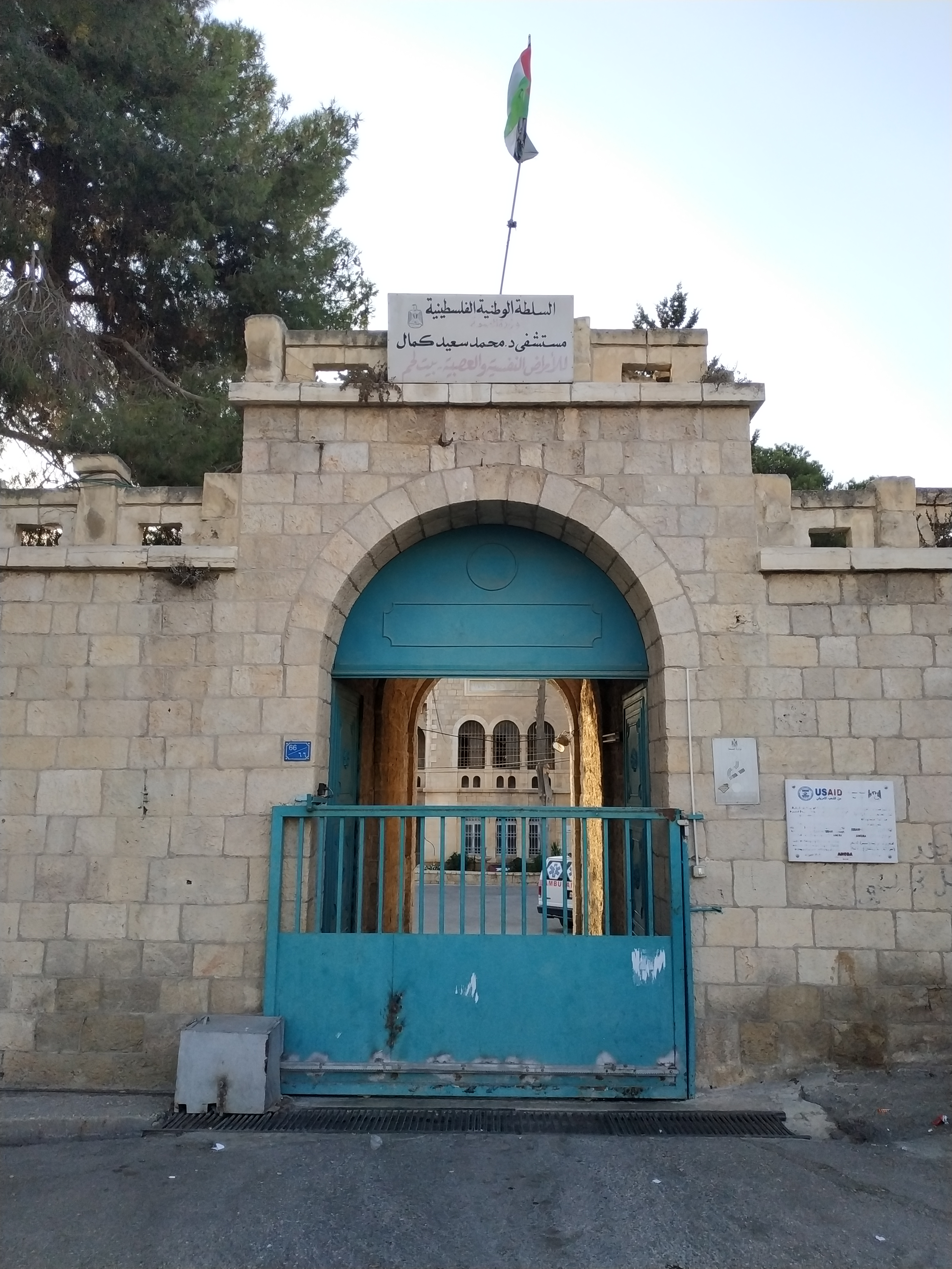 Bethlehem Hospital Psychiatric Entrance.